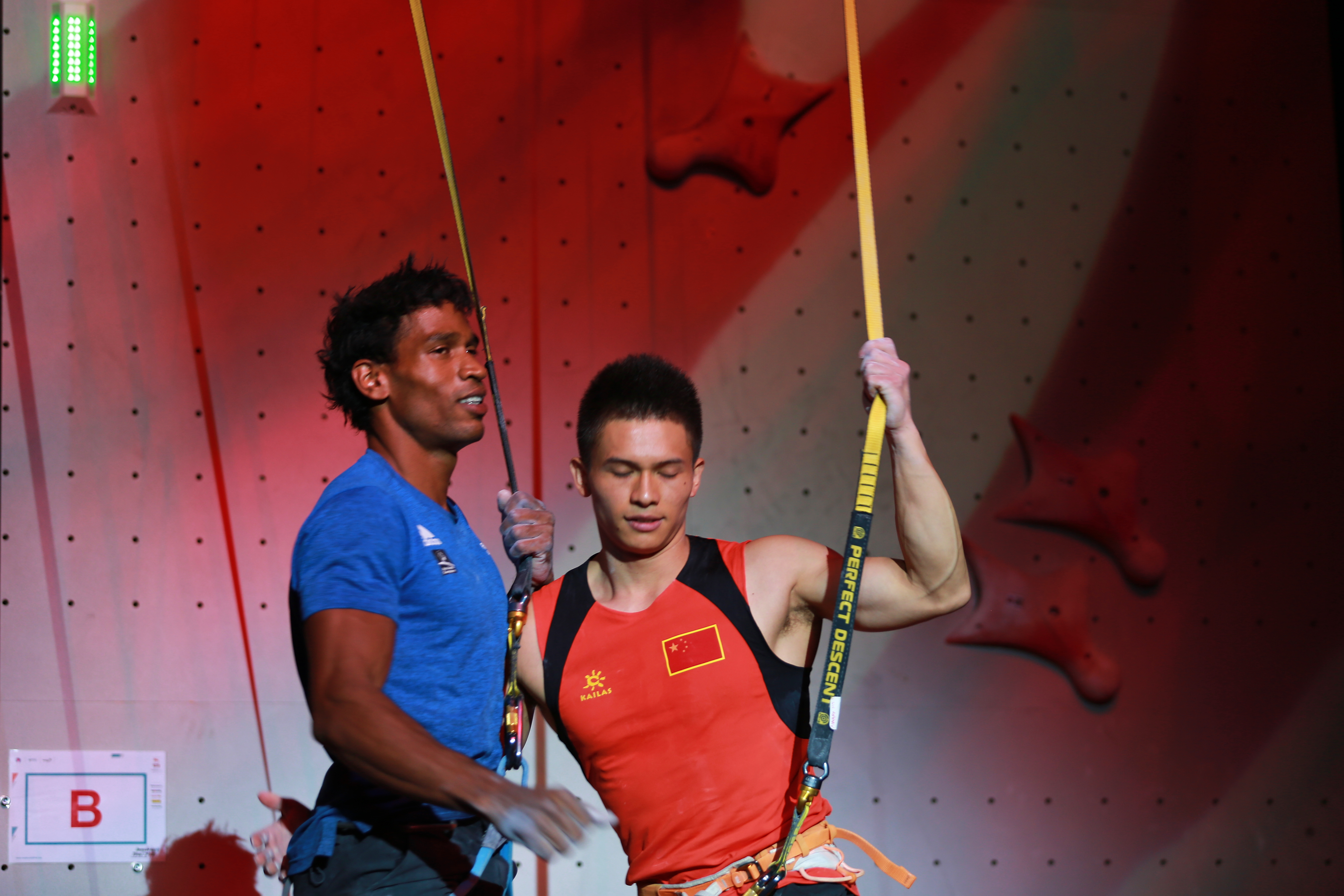 Climbing World Championships 2018 Speed Semifinals